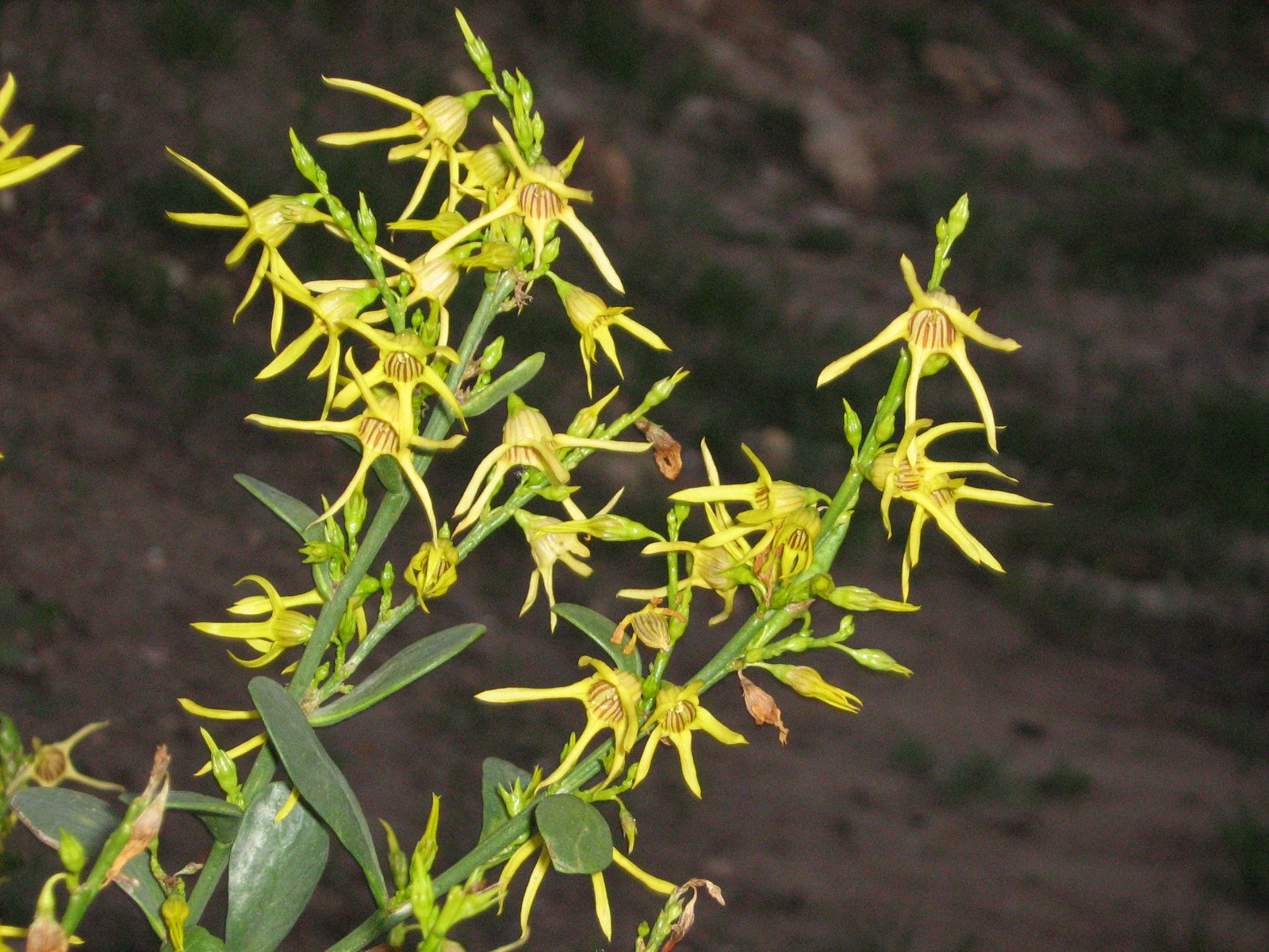 Anthocercis littorea near Richardson Road Oval, Port Denison, Western Australia.